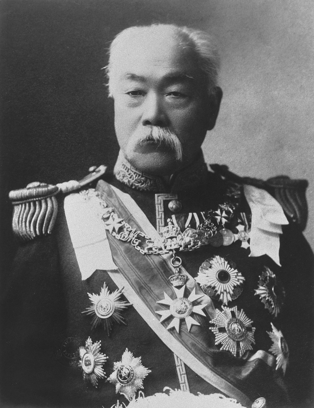 Portrait of Matsukata Masayoshi (松方正義, 1835 – 1924). He wears the Order of St Michael and St George.